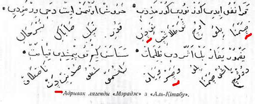 Belarusian Arabic alphabet with marked unique letters